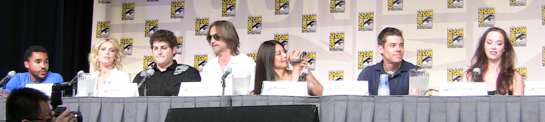 Comic-Con 2009 - Stargate Universe panel - San Diego, Calif. - July 24, 2009. Left to right: Jamil Walker Smith, Alaina Huffman, David Blue, Robert Carlyle, Ming-Na, Brian J. Smith, Elyse Levesque.